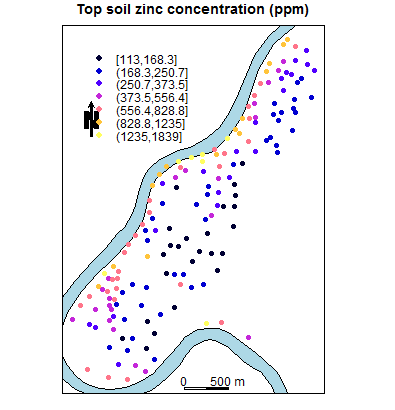 spatial data mining : zinc concentration on the Neuse shore in North Carolina